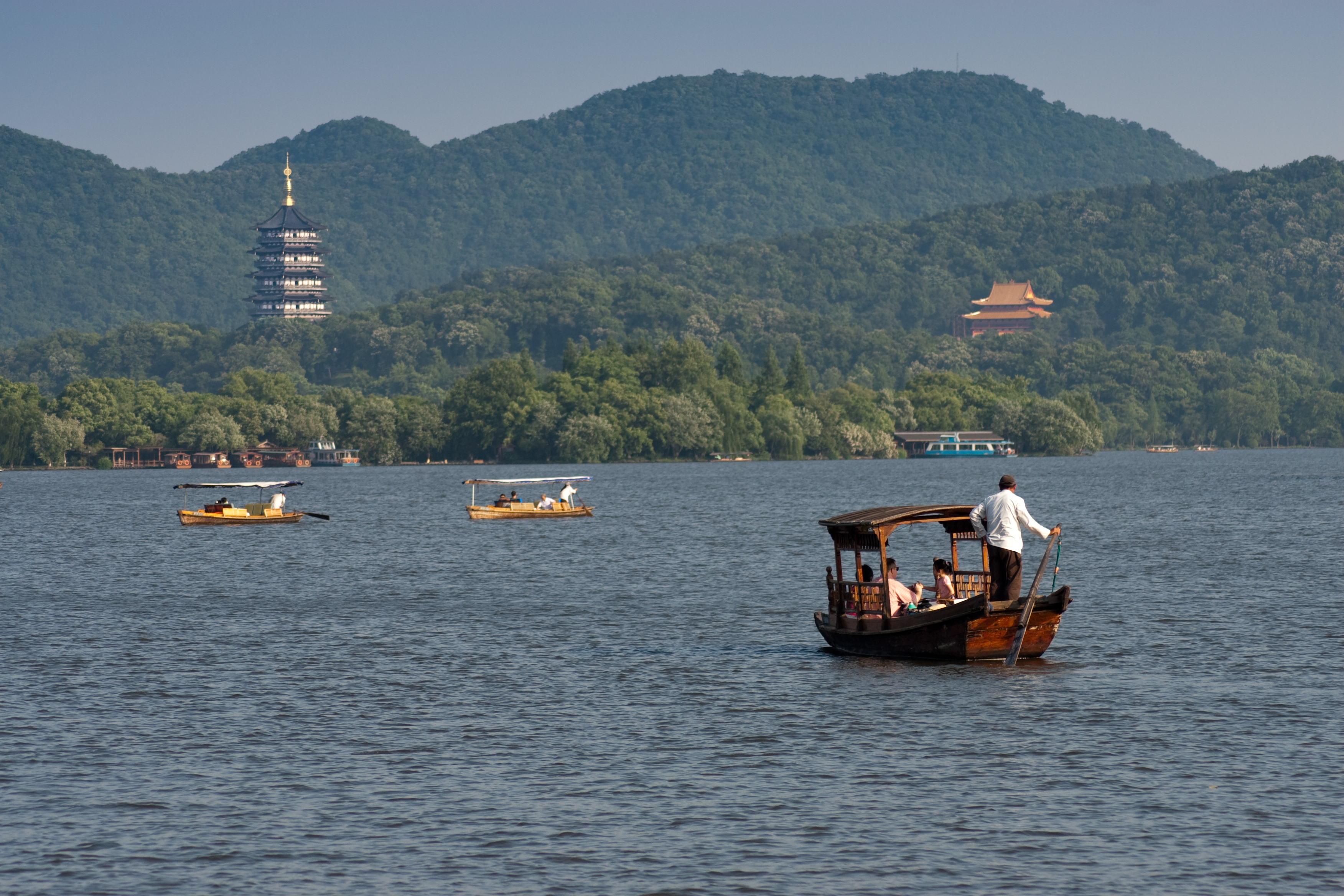 Leifeng Pagoda as seen from West Lake in Hangzhou, China.